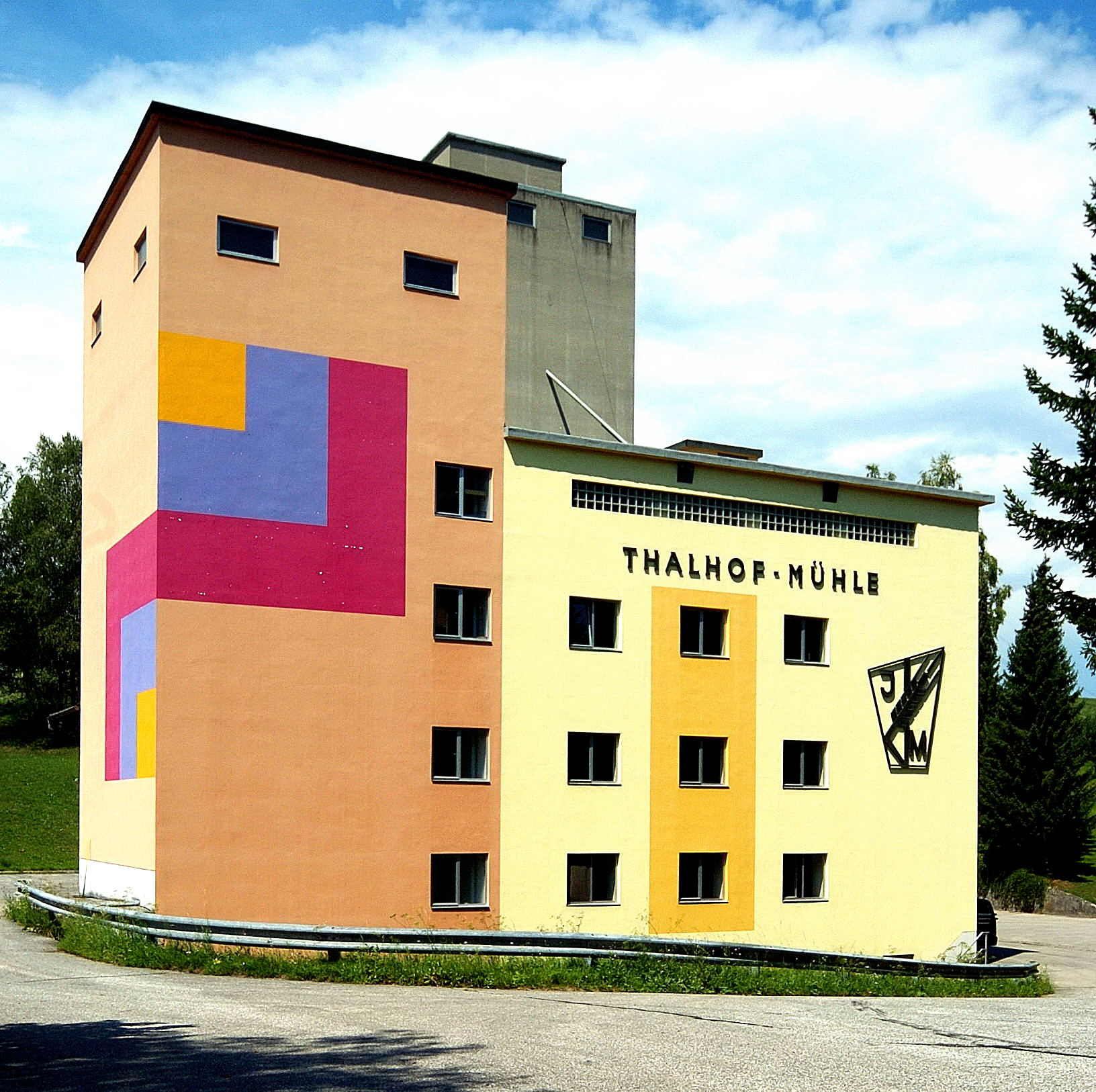 Thalhof mill at Lambichl in the community Koettmannsdorf, district Klagenfurt-Land, Carinthia, Austria